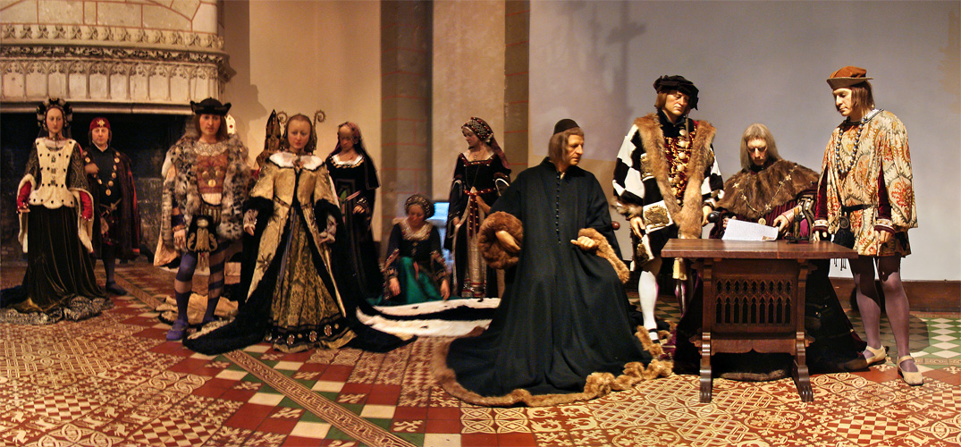 Château de Langeais, Indre-et-Loire, Centre, France. Marriage of Duchess Anne of Brittany to King Charles VIII of France, on December 6th 1491. This very expensive Tableau was created, with considerable financial and administrative help from the Department of Culture, for the Institut de France. The historically-accurate clothing was created from contemporary reportage by the famous costumier Daniel Druet. Effigies by the celebrated Sculptor Daniel Ogier from contemporary evidence – portraits, tomb busts, and in some cases forensic reconstructions based on Government-authorised tomb investigations. From left to right: Princess and ex-Regent Anne de France, sole daughter of King Louis XI; her husband Pierre de Bourbon, Sieur de Beaujeu; King Charles VIII, aged 21; Duchess Anne de Bretagne, aged 14; the kneeling lady is Francoise de Dinan, Dame de Chateaubriant and companion governess to the young Duchess, aged 55yrs. At the table: seated, the Notary of Tours, Pierre Bourreau who drew up the hasty Marriage Contract; standing: Philippe de Montauban, aged 51, faithful and long-serving Chancellor of Brittany and a veteran soldier who had commanded a Company of Lances for Duke François II; seated again, the 61-year-old Chancellor of France Guillaume de Rochefort; and lastly, standing, another of the Duchess's faithful supporters, the Prince of Orange, Jean IV de Chalons-Arlay. At the back against the fireplace and out of sight in this view are effigies of the two Bishops who officiated: Jean de Rèly, Bishop of Angers, and Louis d'Amboise, Bishop of Albi, who was eventually created a Cardinal. Both Clerics sent detailed Reports to their Spiritual Master the Pope – which is how we know who was present at this hasty, and secret ceremony; and what clothes they were wearing.